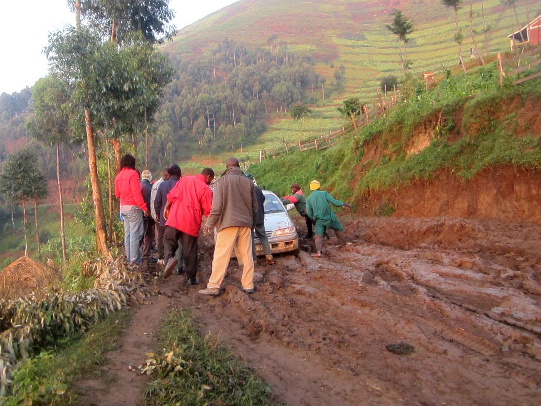 This is an image with the theme "Africa on the Move or Transport" from: Uganda